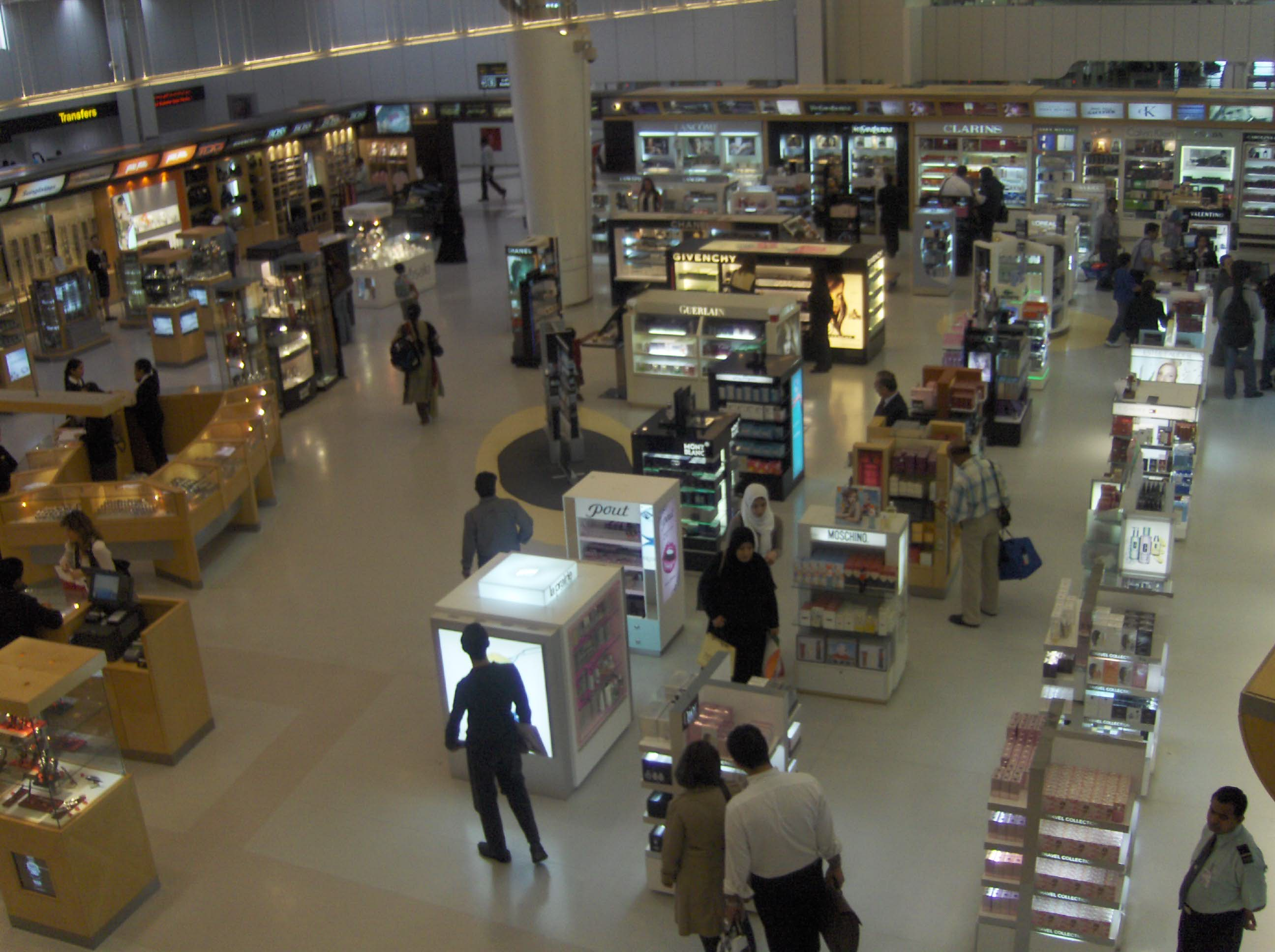 Shot of duty free area of the current Doha International Airport, taken on 02/18/2007 from the upper level.